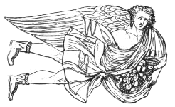 Greek god Astraeus